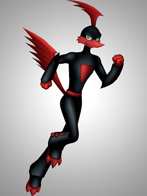 Digital fan art piece of Loonatics Unleashed animated series.